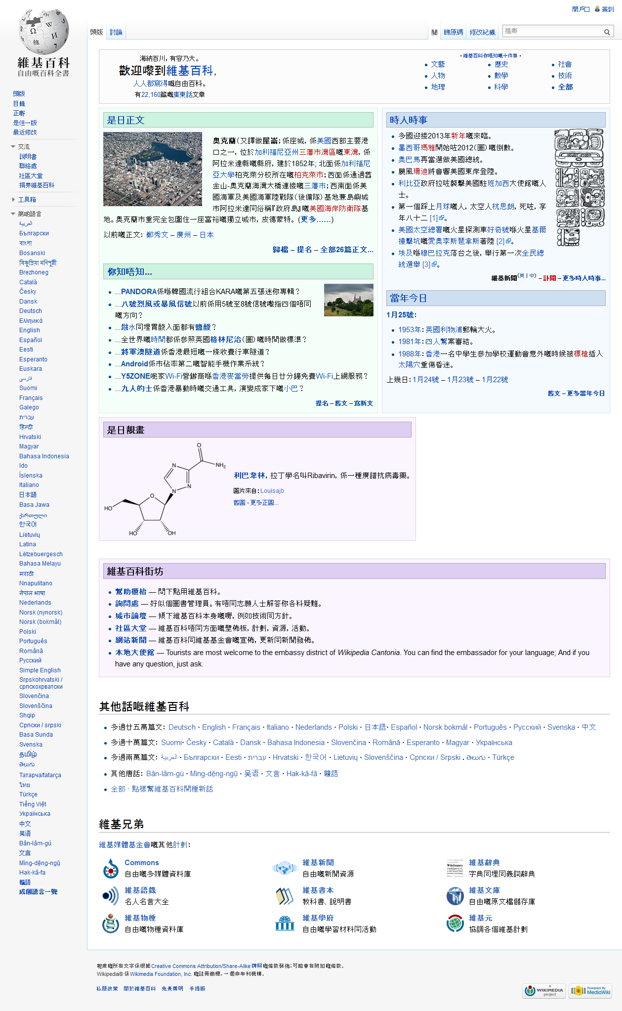 Cantonese Wikipedia screenshot